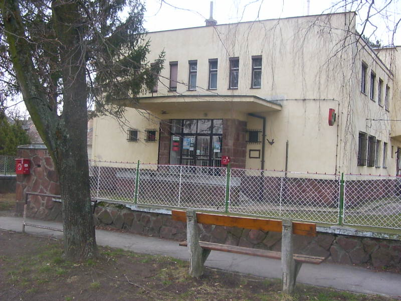 Lovászpatona, post office